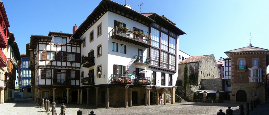 Panoramic view of Hondarribia centre